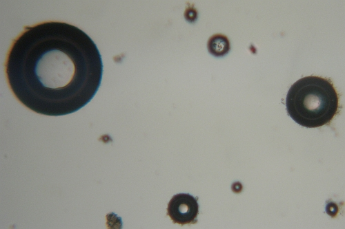 artifacts in microscopy: air bubbles in a coproscopic specimen